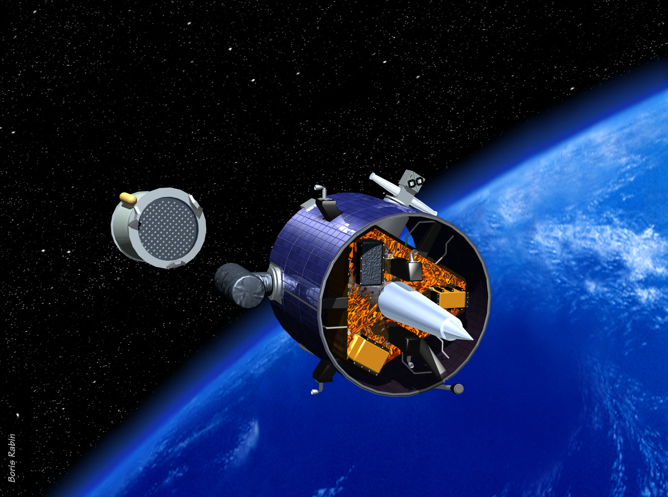 NASA Lunar Prosepector taken from NASA website